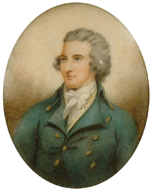 Miniature portrait of Mungo Park, bust-length with powdered hair, white cravat and buttoned jacket on mica, oval 9.5 x 7.5cm. Footnote: Mungo Park, a Scottish surgeon and explorer, was sent out by the 'Association for Promoting the Discovery of the Interior of Africa' to discover the course of the River Niger. Having achieved a degree of fame from his first trip, carried out alone and on foot, he returned to Africa with a party of 40 Europeans, all of whom lost their lives in the expedition.